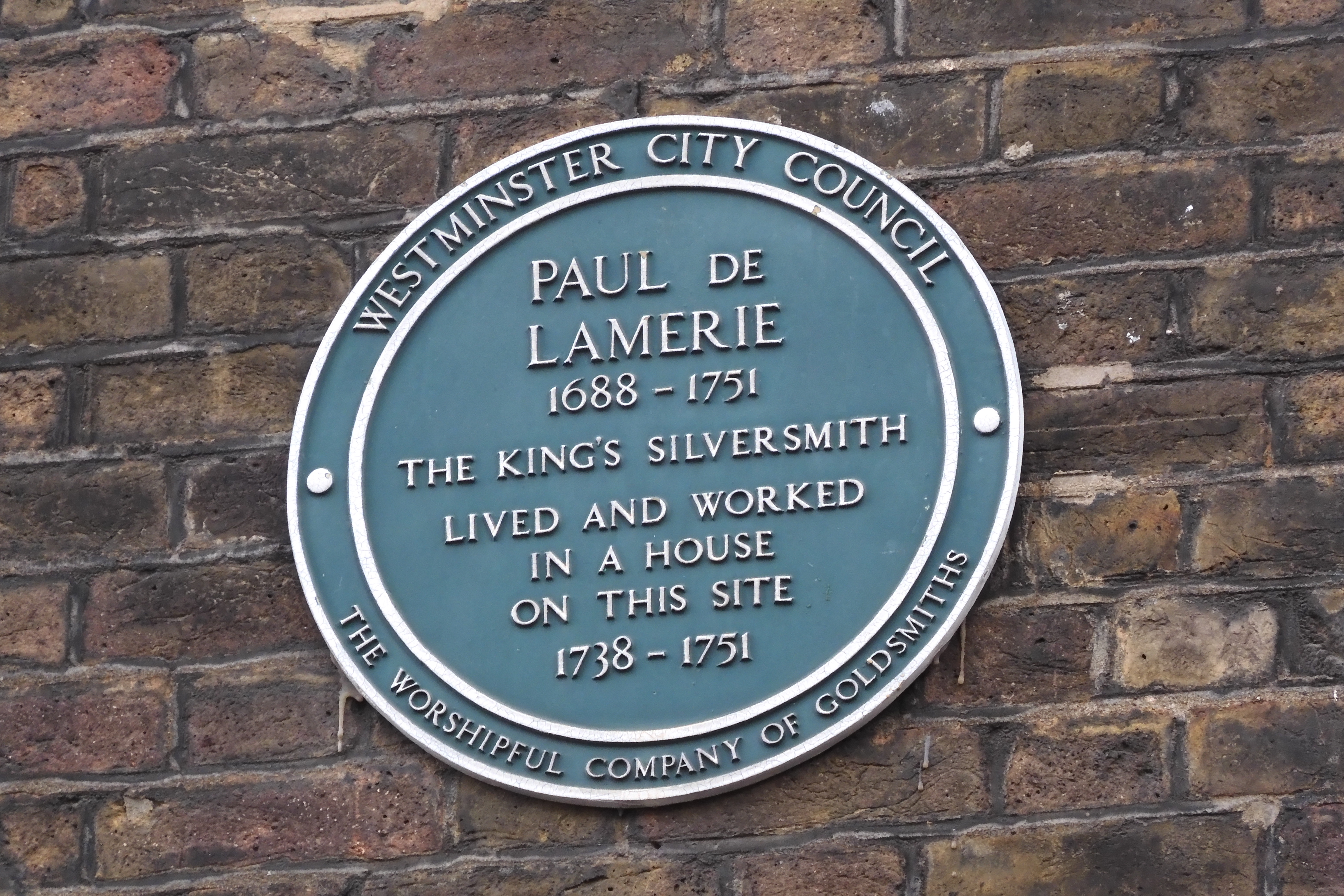 Paul de Lamerie